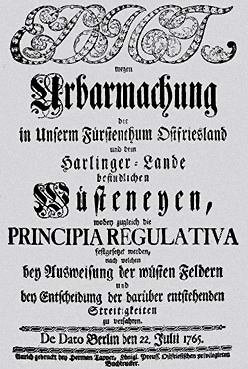 Urbarmachungsedikt - Edict by Friedrich II of Prussia